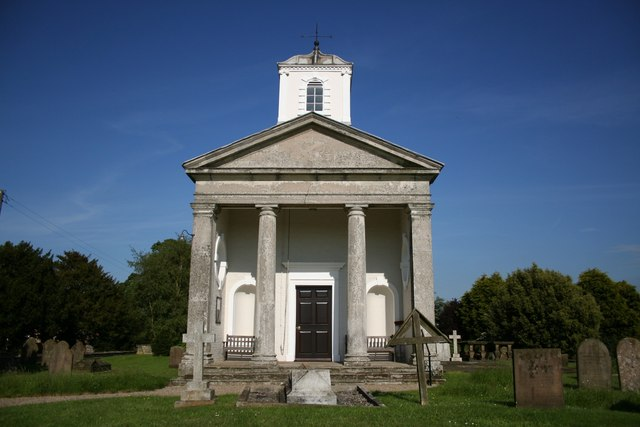 St Helen's parish church, Saxby, Lincolnshire, seen from the west, showing the tetrastyle portico with Tuscan columns